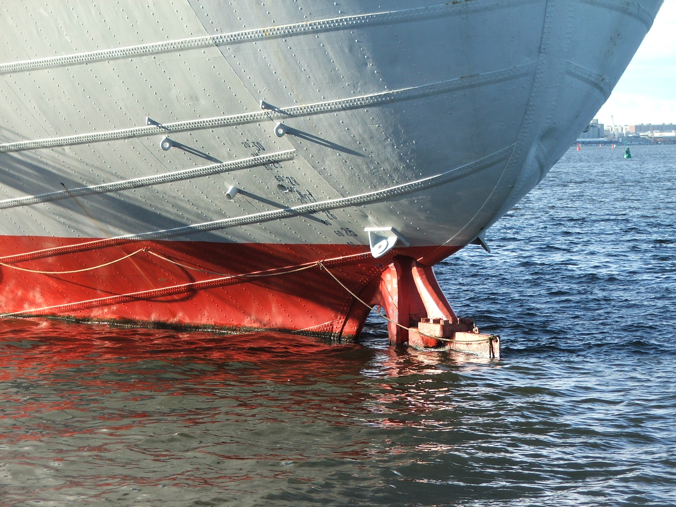 Ships stern with riveted hull of joggled steelplates